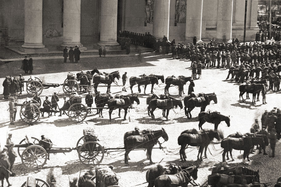 Artillery of Polish Army in Wilno, April 1919